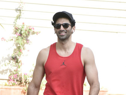 Aditya Roy Kapur spotted at the gym in Bandra